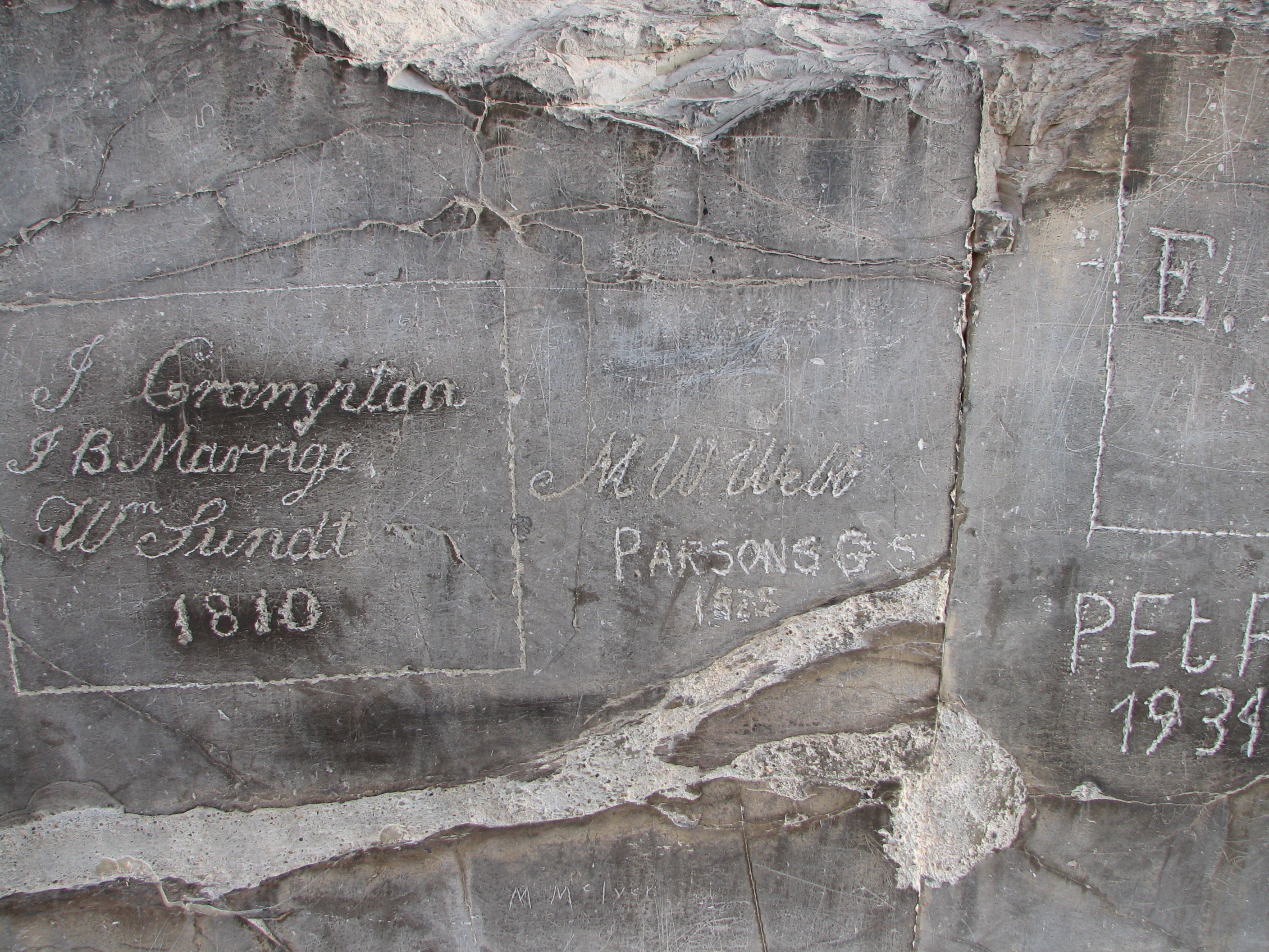 Graffiti on the Gate of All Nations. 1810, 1931 and 1925 or 1825 (specimen not clear)